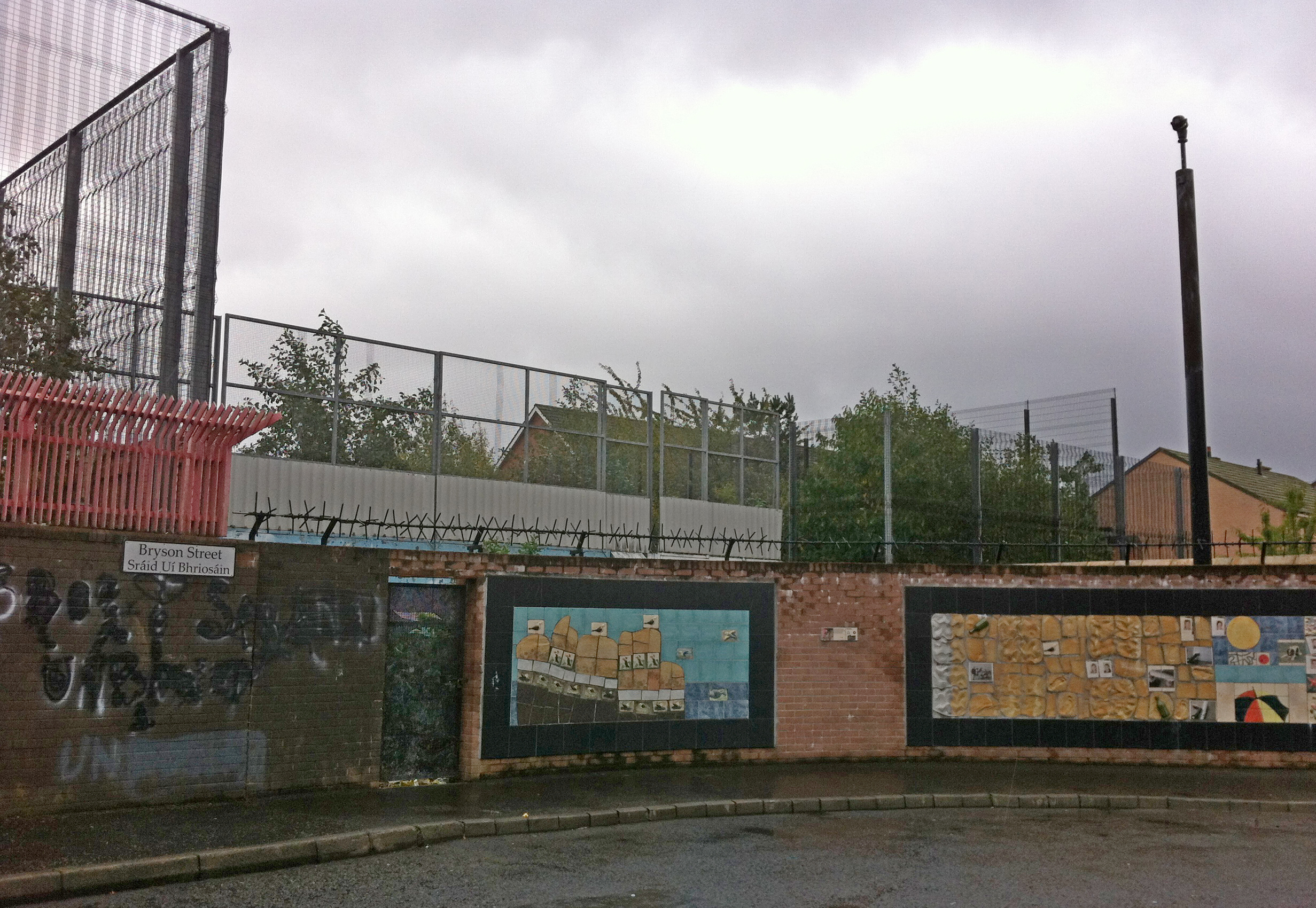 Taken from with increased brightness.